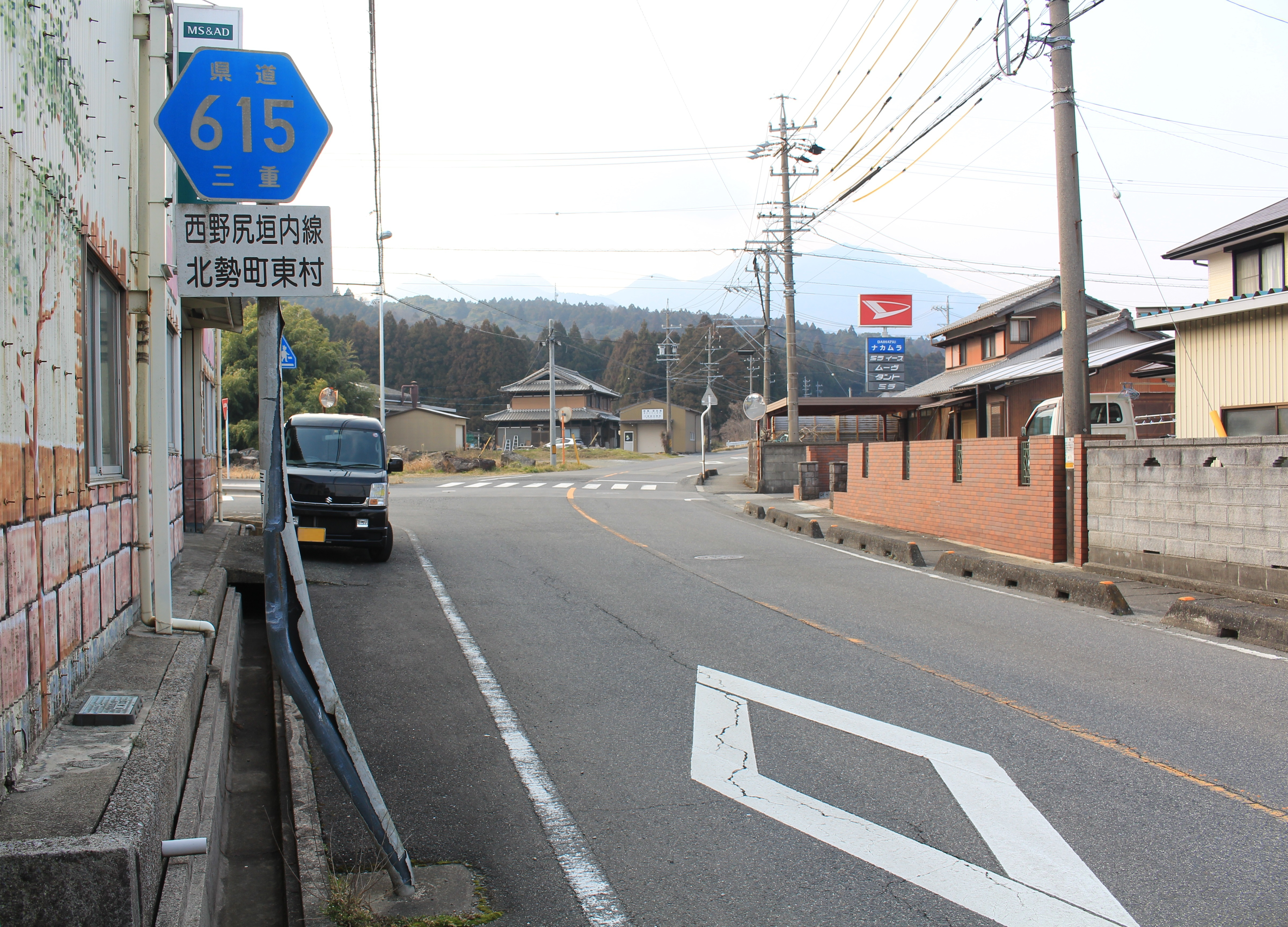 Mie Prefectural Road Route 615 in Higashimura, Hokusei-chō, Inabe, Mie prefecture, Japan.